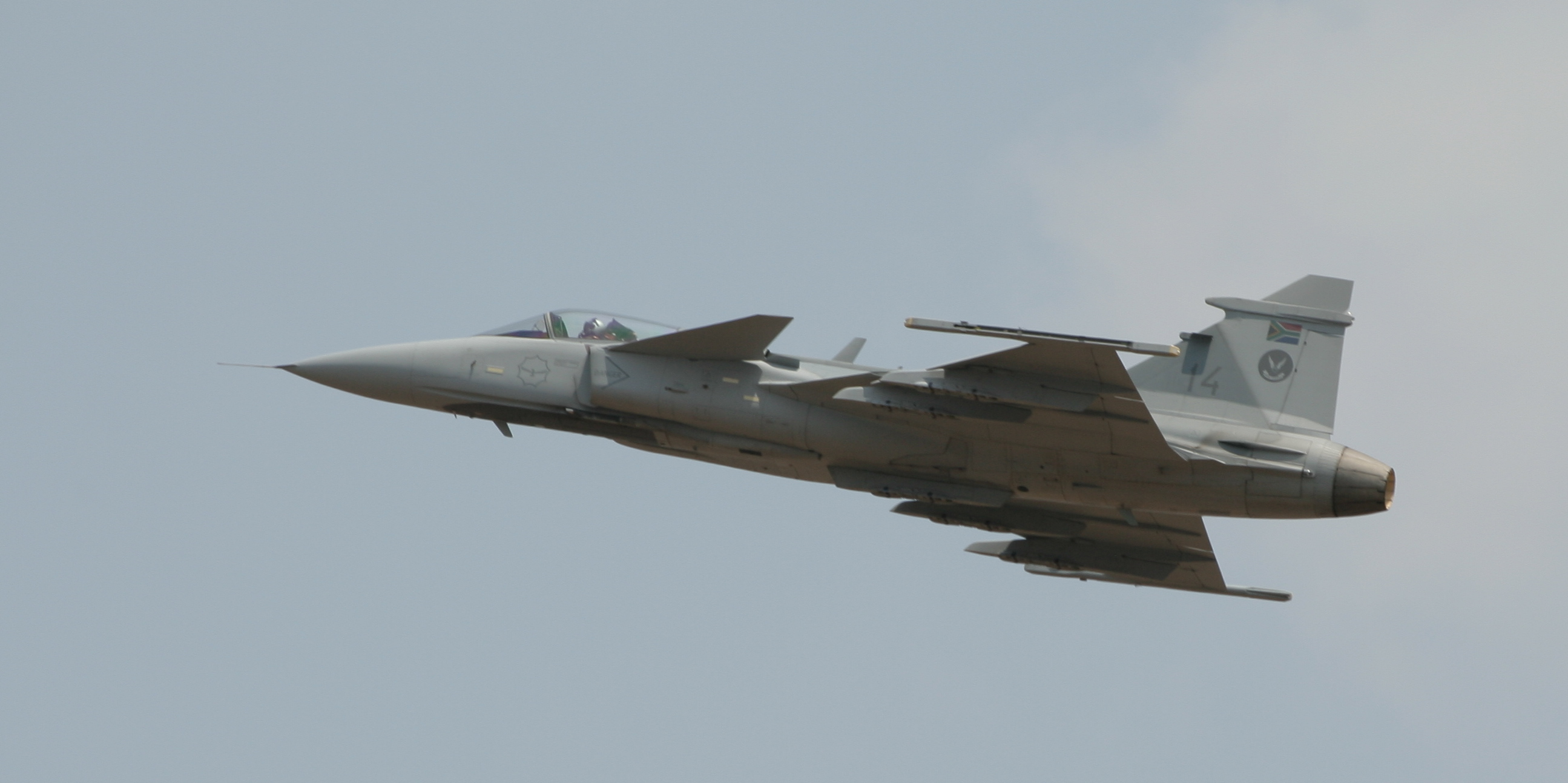 South African Air Force Saab JAS-39 Gripen